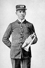 W. C. Handy, age 19. Photographer unknown.